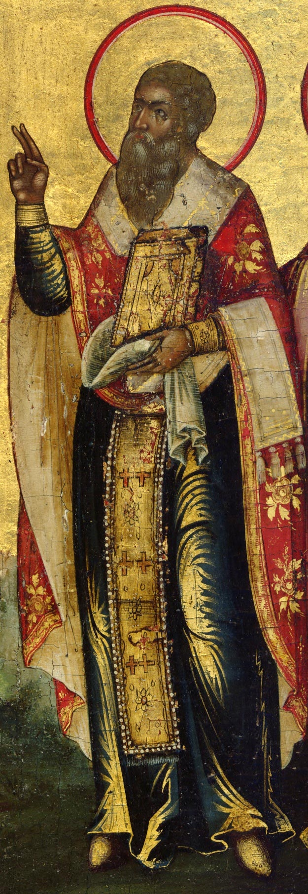 James the Just, Lord´s brother. Russian Orthodox icon. Fragment from the icon "Selected saints". Primer (paint), oil, tempera, gold. Size 36 x 31,8 x 3,3 cm..